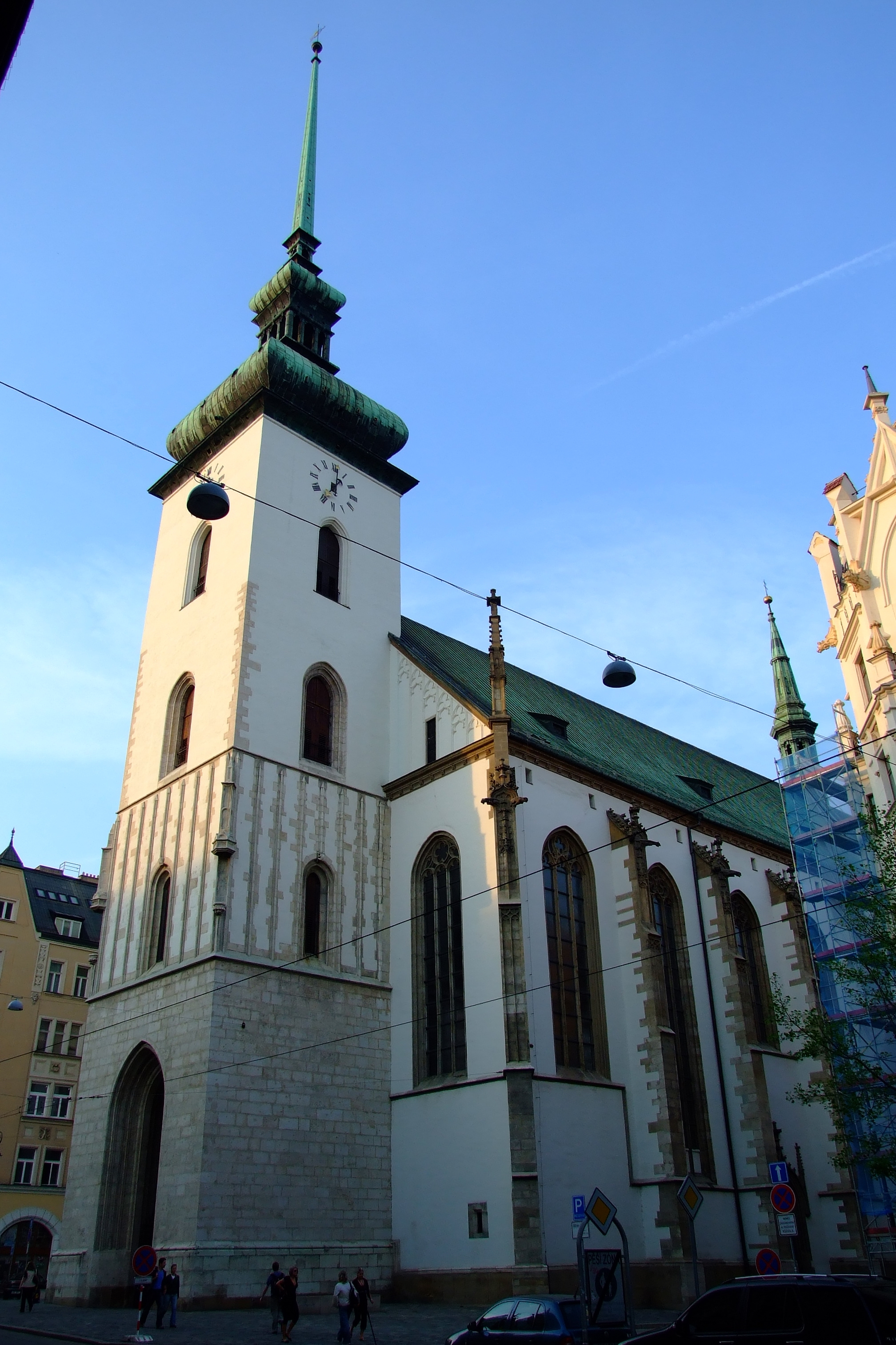 Church of St James in Brno, Czech Republic